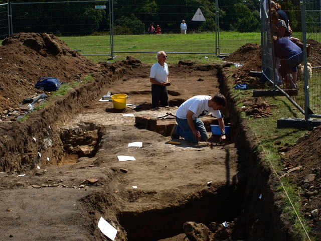 Its down here somewhere Excavation to establish the location of Ampthill castle.